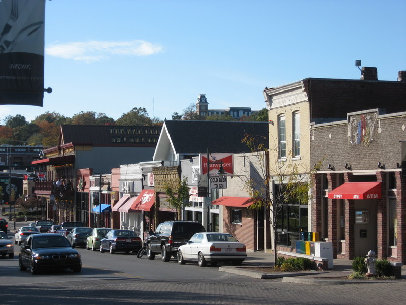 Pic